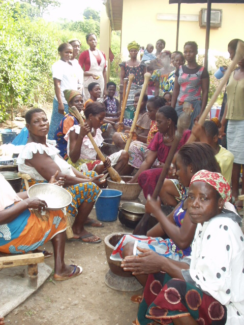 Kuanguonou mission (Côte d'Ivoire)